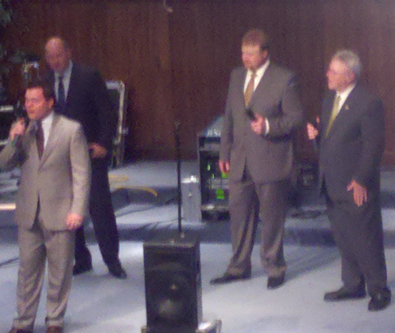 Taken from my camera phone at a Gold City concert on July 23, 2010 at First Baptist Church of Irvington in Irvington, Alabama.